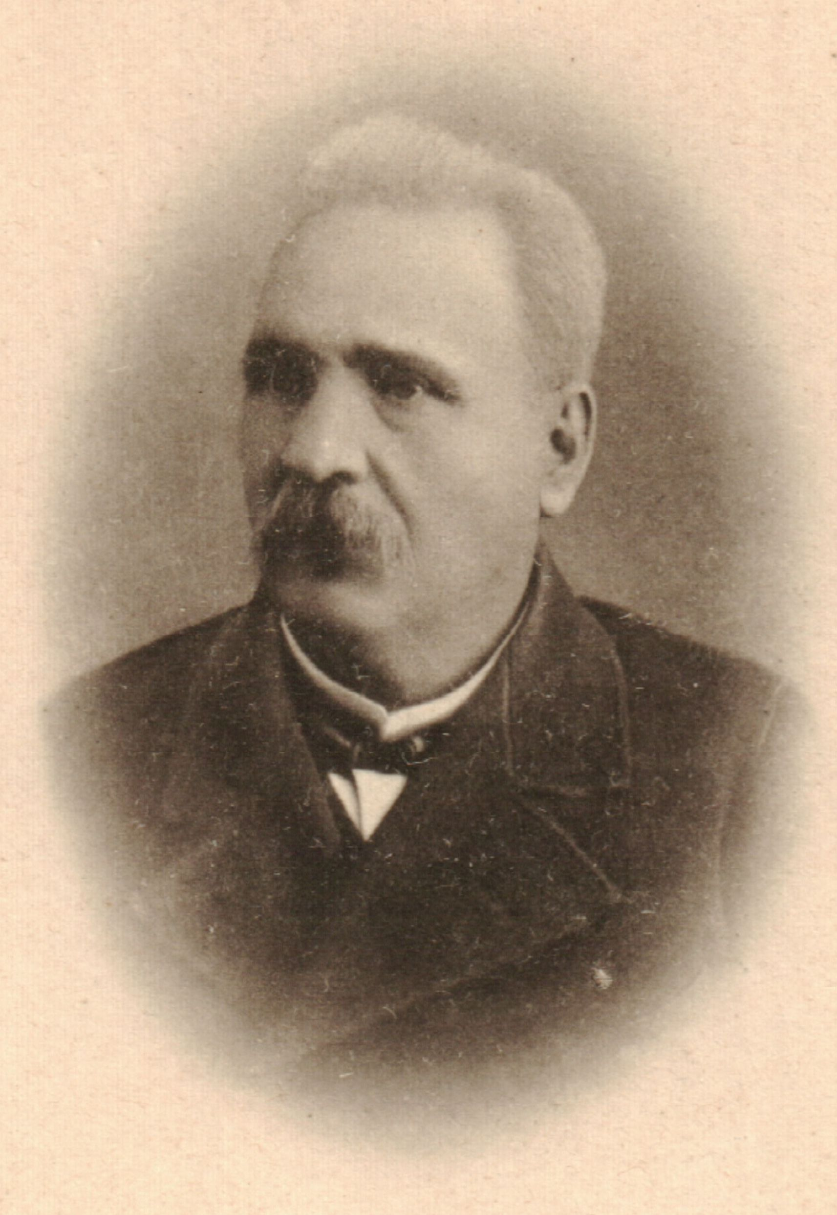 Petko Slaveykov